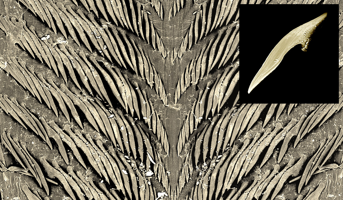 An electron micrograph of Selenochlamys ysbryda or the Ghost Slug's teeth. Top right panel shows an enhanced view of a single tooth in profile.